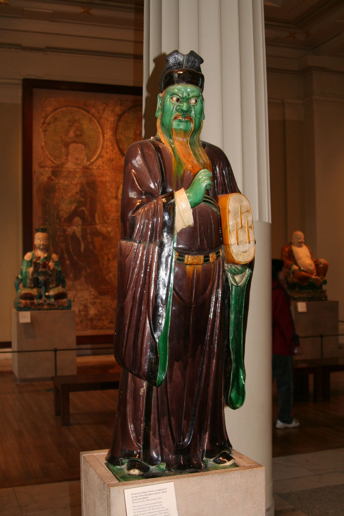 Photos taken at the British Museum - Asian Gallery - Glazed stoneware figure of a judgement figure, Ming Dynasty, China, 16th century.